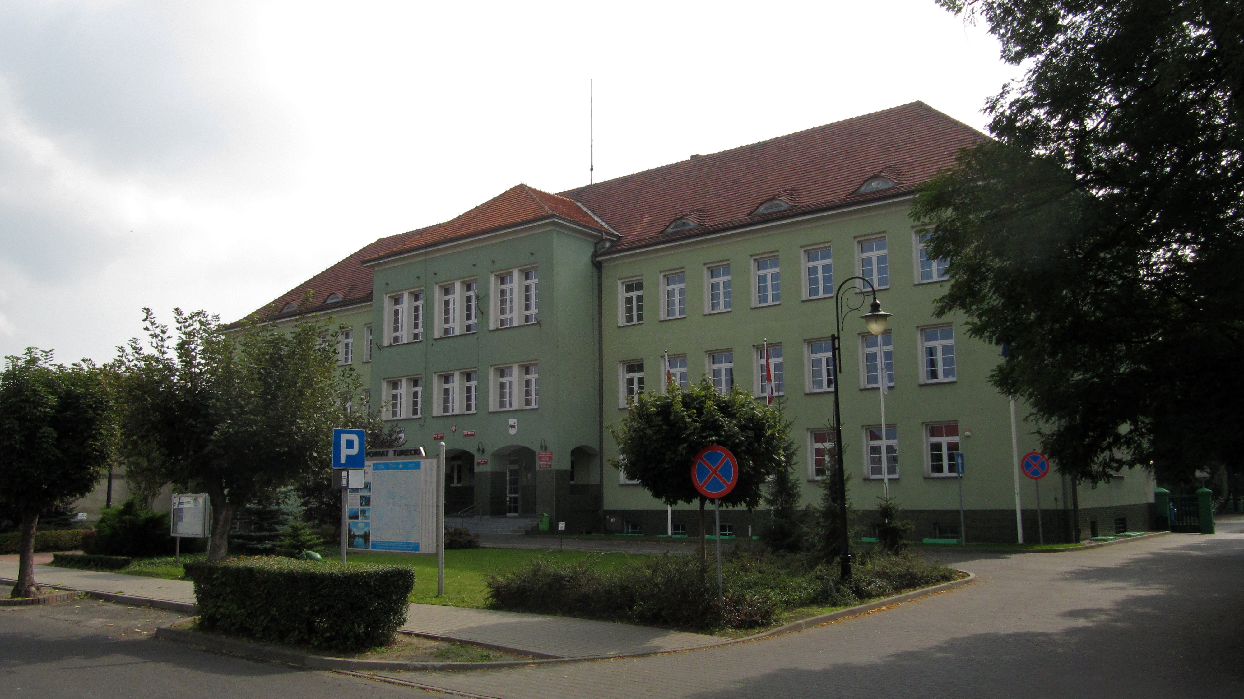 Turek, New Town Hall, ul. Kaliska 59